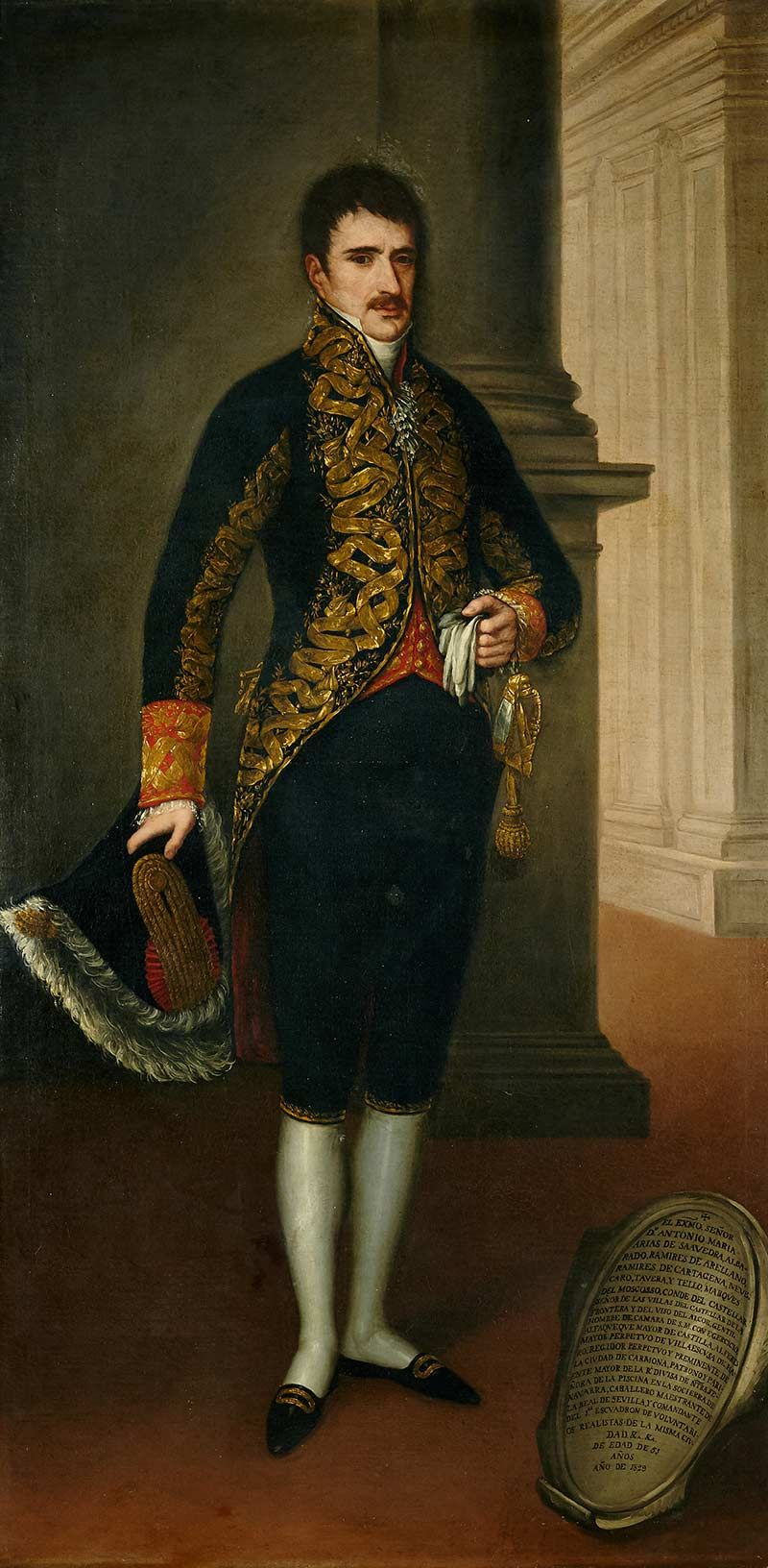 Antonio Maria Arias de Saavedra. VI Marquess of Moscoso. José Gutiérrez de la Vega. 1824.